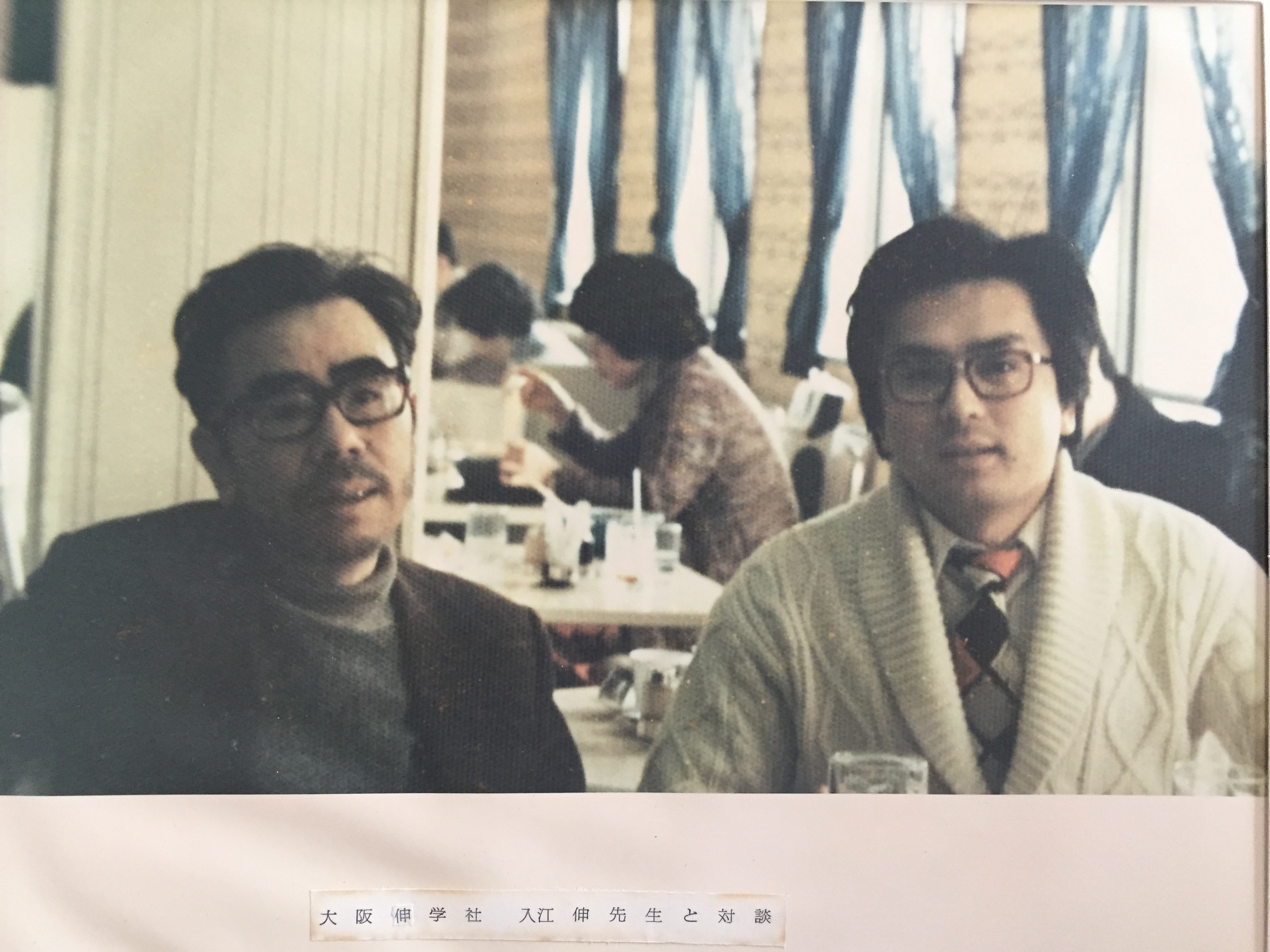 Mr.Irie and Mr. Fukushima are educators from Japanese tutoring schools. The relationship between them is that of master and pupil.